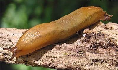 Arion subfuscus; slug; landsnail from the Netherlands